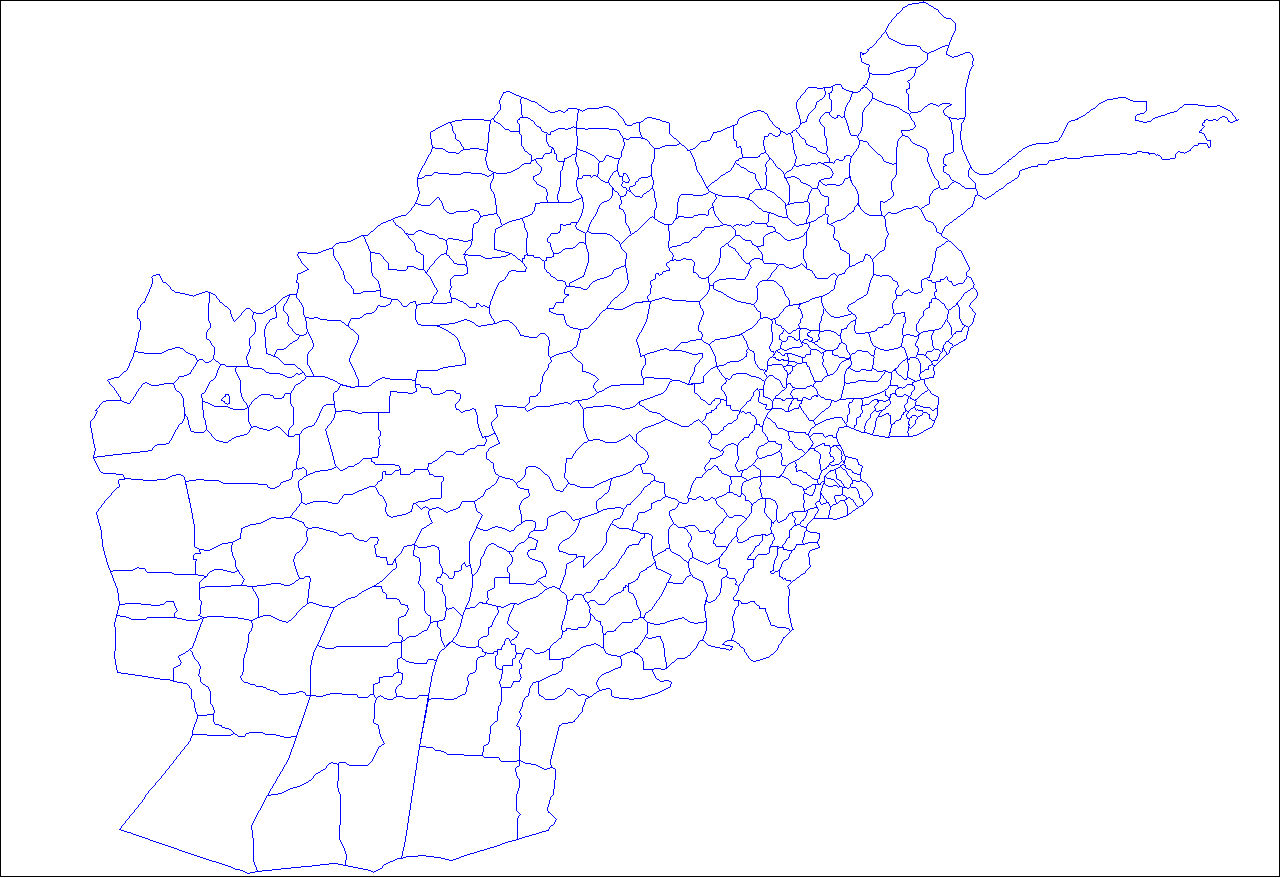 Map of the districts of Afghanistan. Created by Rarelibra 19:25, 29 March 2007 (UTC) for public domain use, using MapInfo Professional v8.5 and various mapping resources.